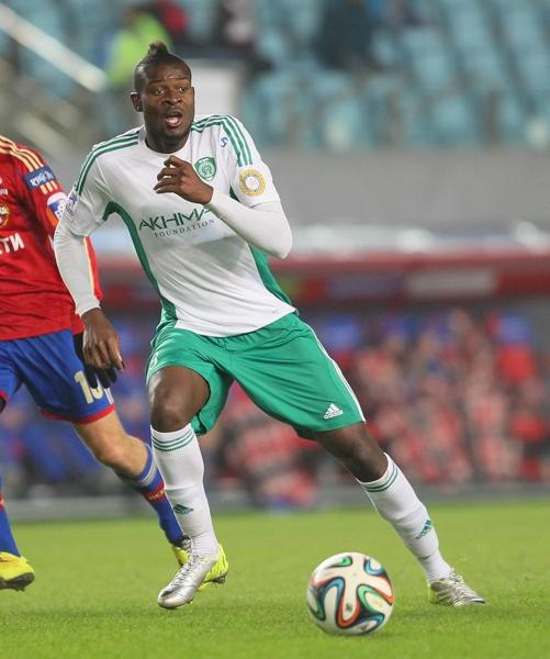 Jeremy Bokila playing for Terek Grozny.